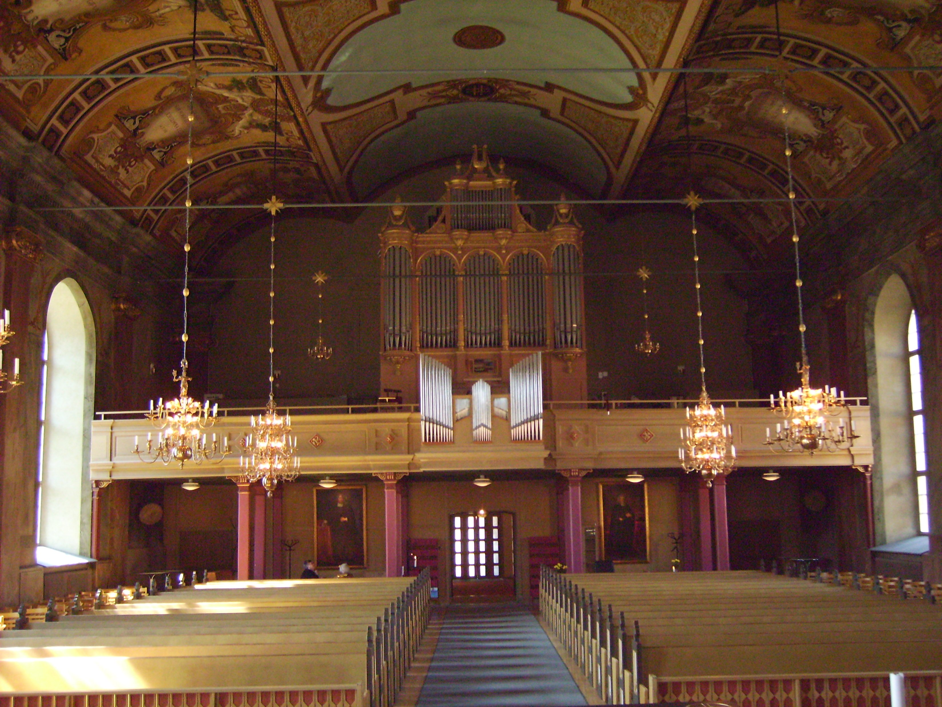 Photo by Harri Blomberg.